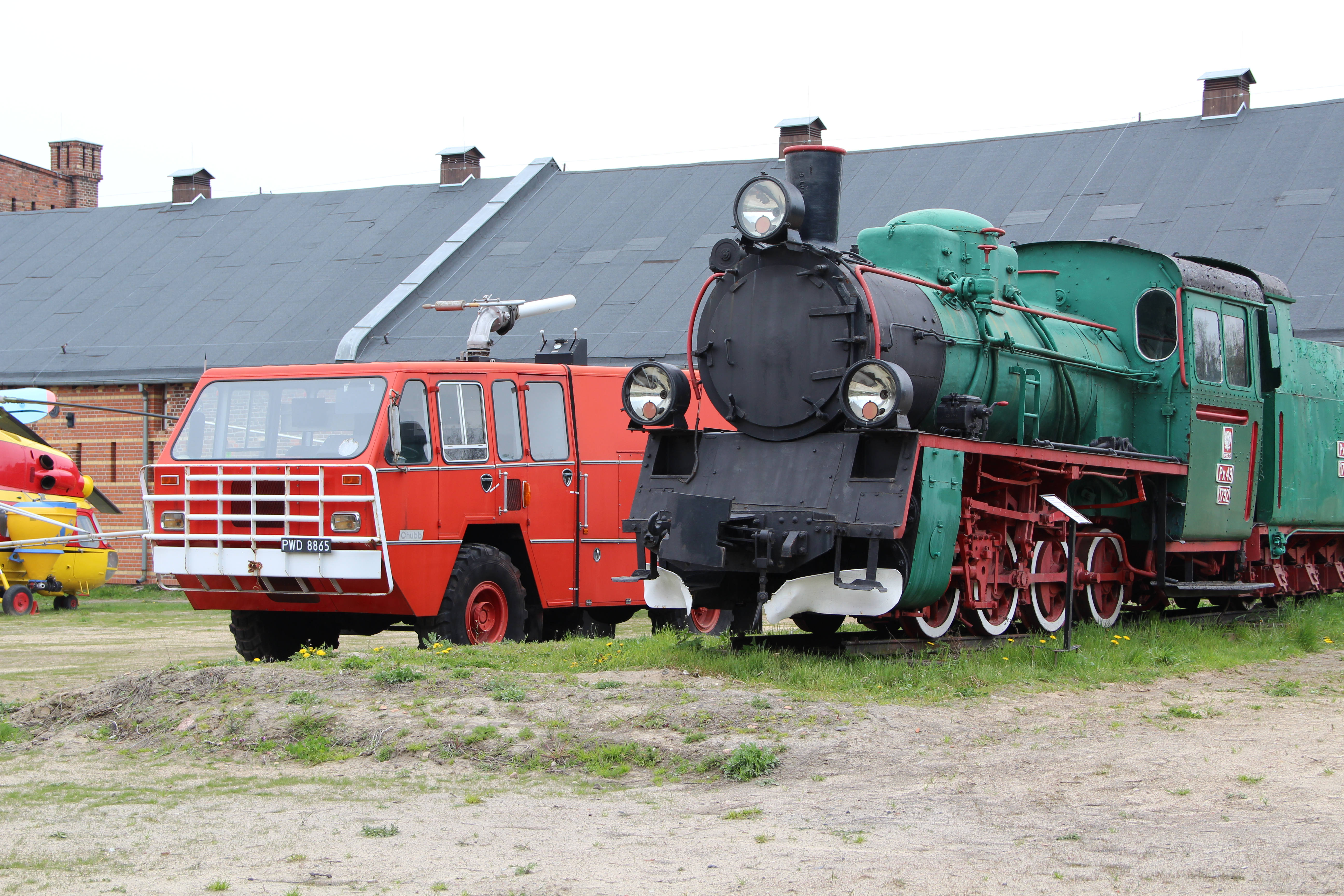 National Museum of Agriculture in Szreniawa. Locomotive Px49-1792, Fabryka Lokomotyw Chorzów and Konstal Chorzów (tender), 1949, typ DH 2 "Sawa". Fire engine Chubb Fire Unipower R44 - GPr-3000